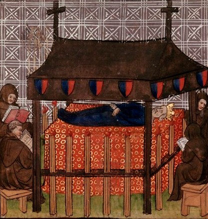 The funeral of Jeanne, queen of France and Navarre